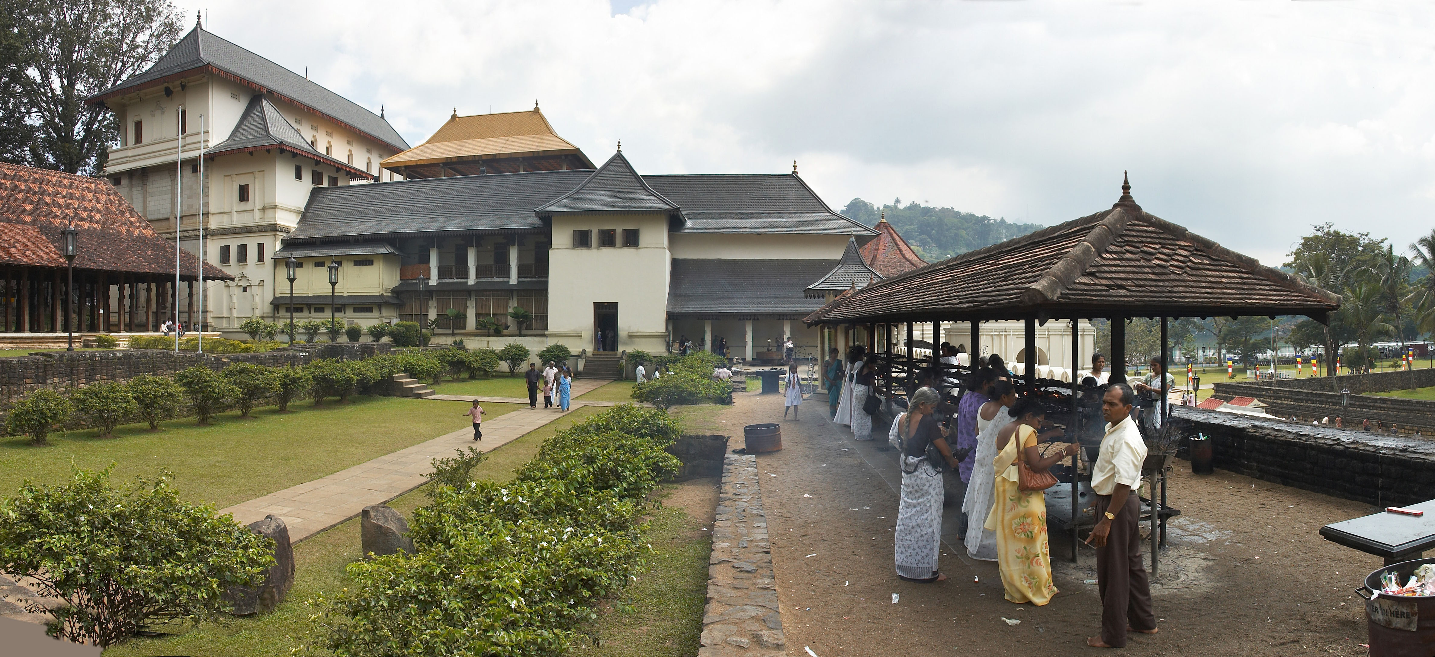 Temple Dalada Maligawa in the city Kandy in Sri Lanka - Google Maps - Google Earth